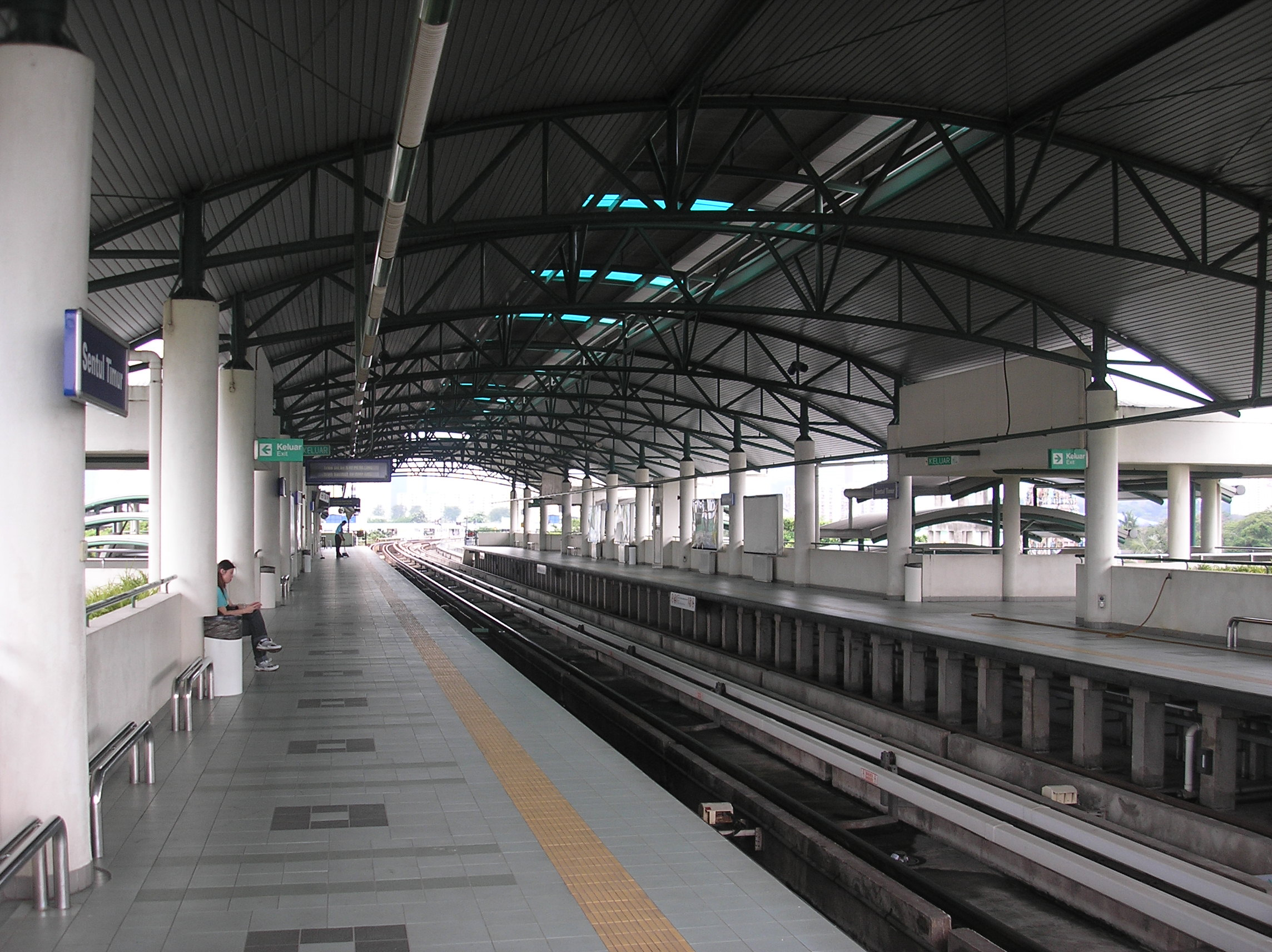 A platform view of the Sentul Timur terminating station (common Ampang Line route), in Sentul, Kuala Lumpur, Malaysia.